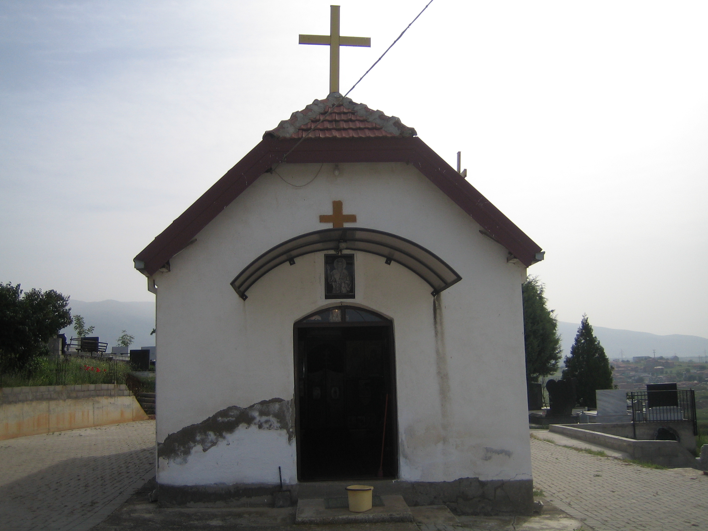 Church St. Atanas - Vizbegovo (Skopje)